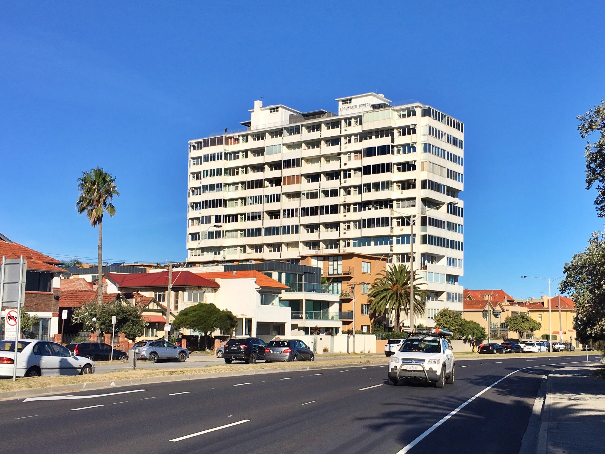 Edgewater Towers St Kilda, architect Mordecai Benshemesh, completed 1961